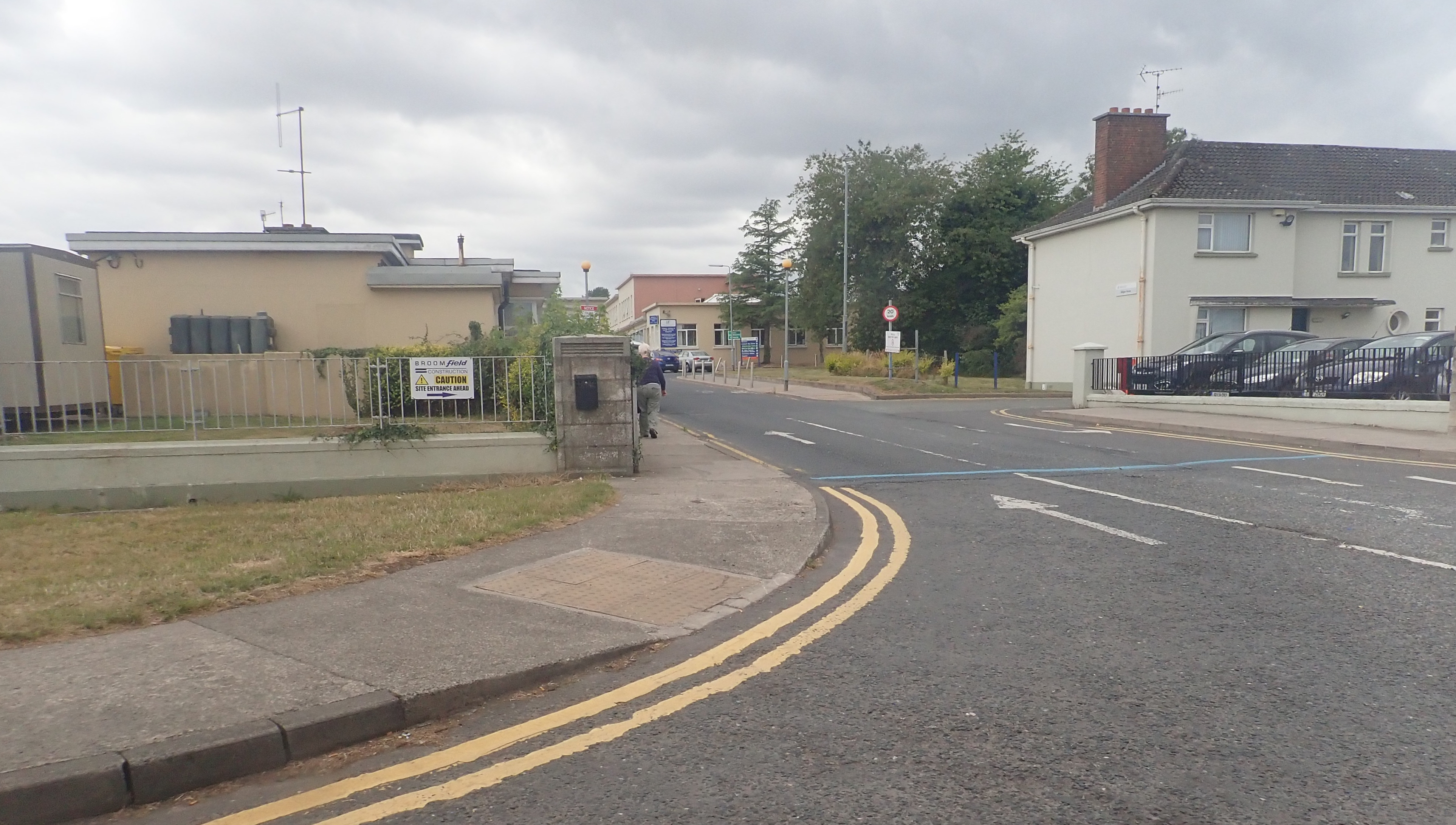 The main entrance to Louth County Hospital